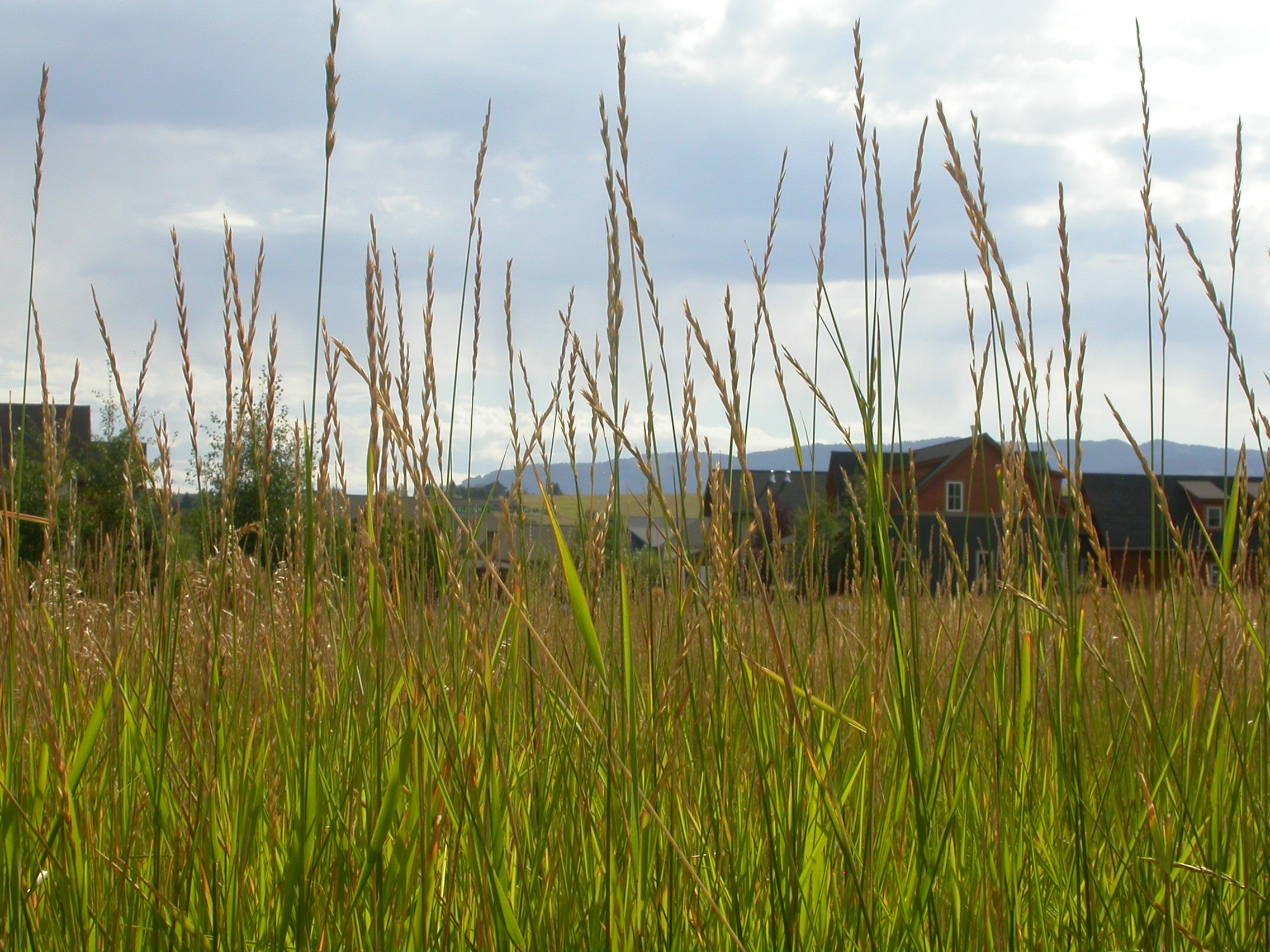 The inflorescence is a slender two-sided terminal spike (a wheatgrass characteristic).